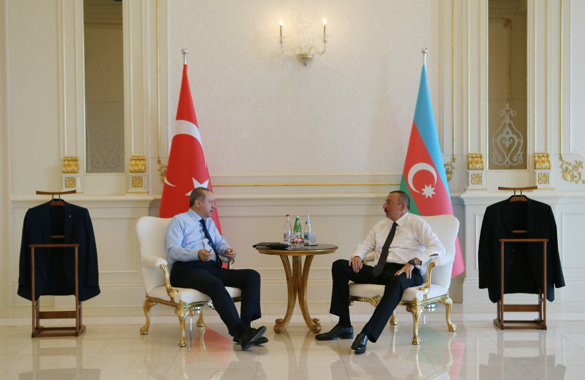 Azerbaijani President Ilham Aliyev held one-on-one meeting with Turkish President Recep Tayyip Erdogan, Baku, Azerbaijan.